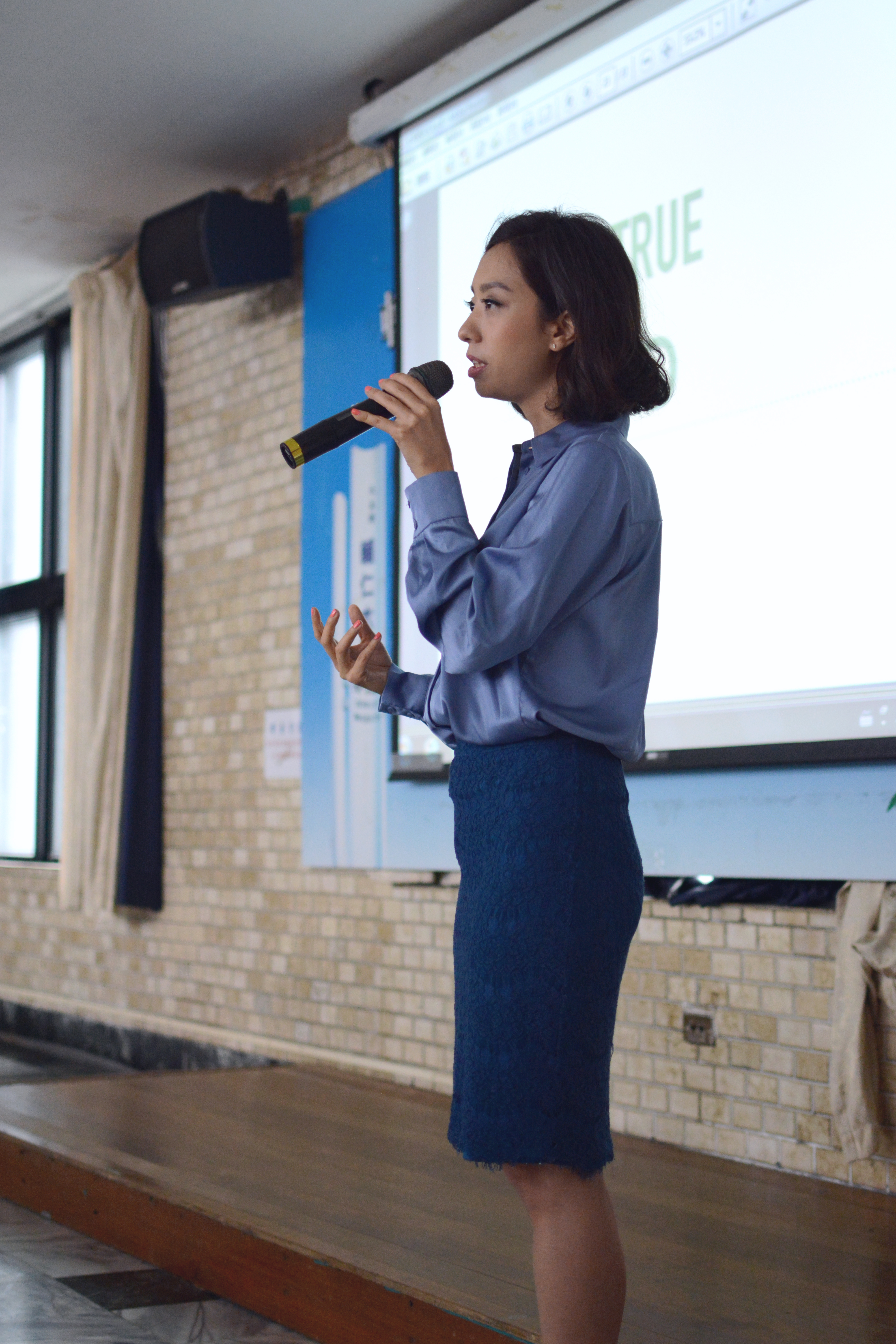 Esther Veronin speaking at Fu-Jen Catholic University for the school's first ever Women's Week 2019, during which she and sister Lara spoke on feminist history, cultural issues, and personal experience.